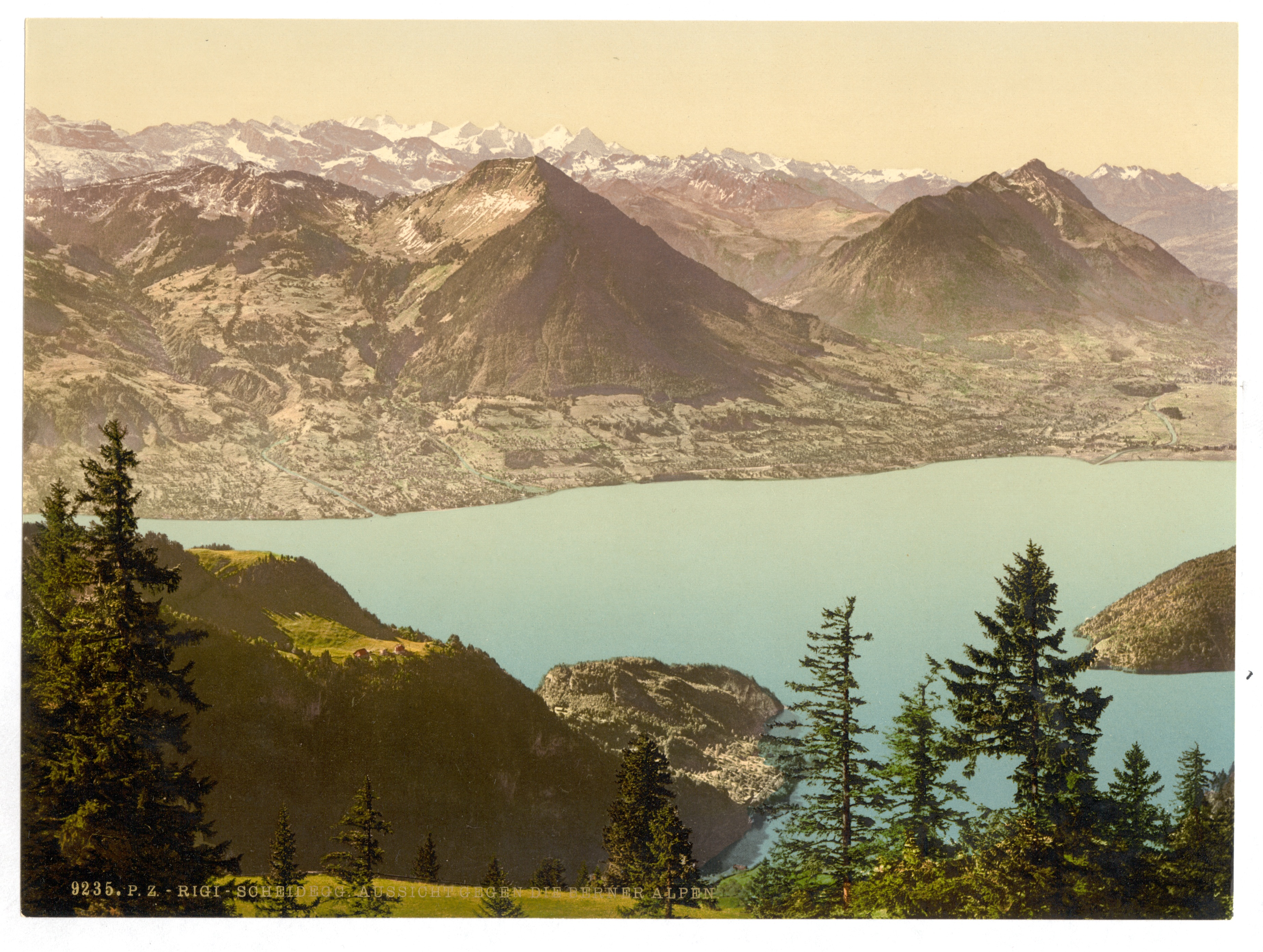 Forms part of: Views of Switzerland in the Photochrom print collection.; Title from the Detroit Publishing Co., Catalogue J-foreign section, Detroit, Mich. : Detroit Publishing Company, 1905.; Print no. "9235".